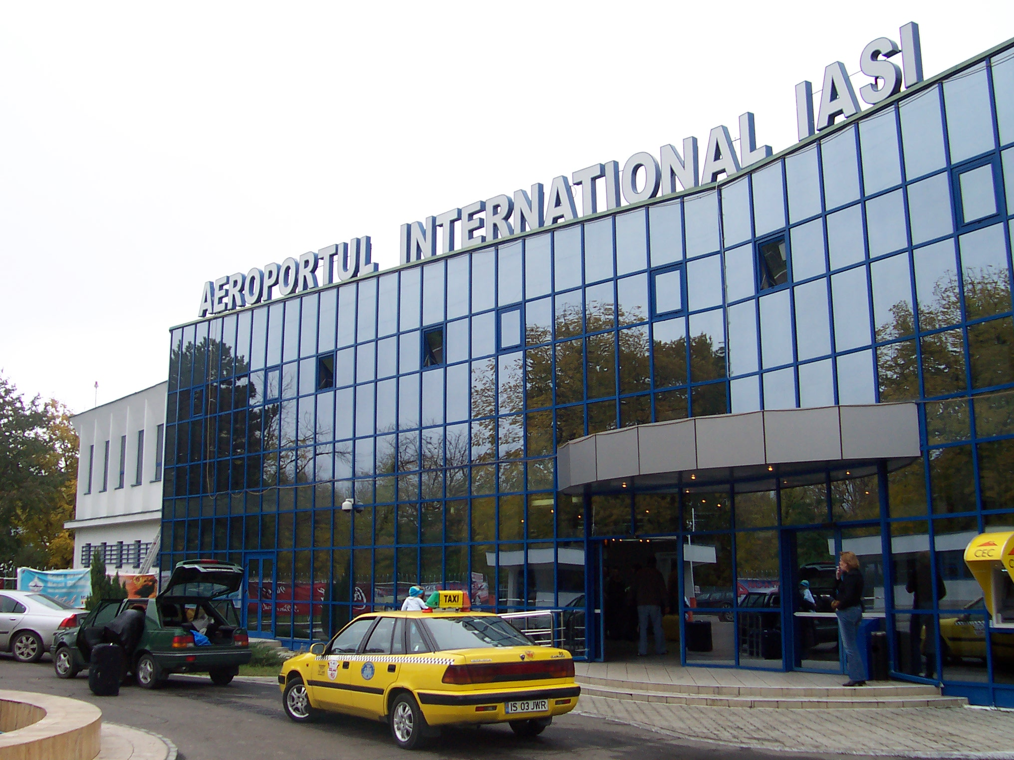 courtesy of Irina Burlacu